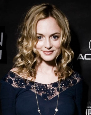 Heather Graham cropped